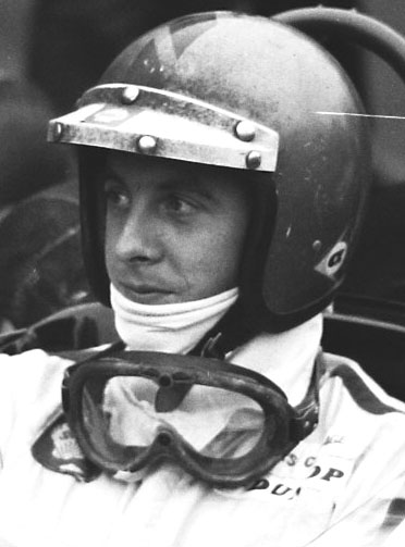 Piers Raymond Courage (27 May 1942, Colchester, England – 21 June 1970, Zandvoort, Netherlands) was a racing driver from England. The photograph was taken in August 1968 on the occasion of the German Formula 1 Grand Prix at Nürburgring.